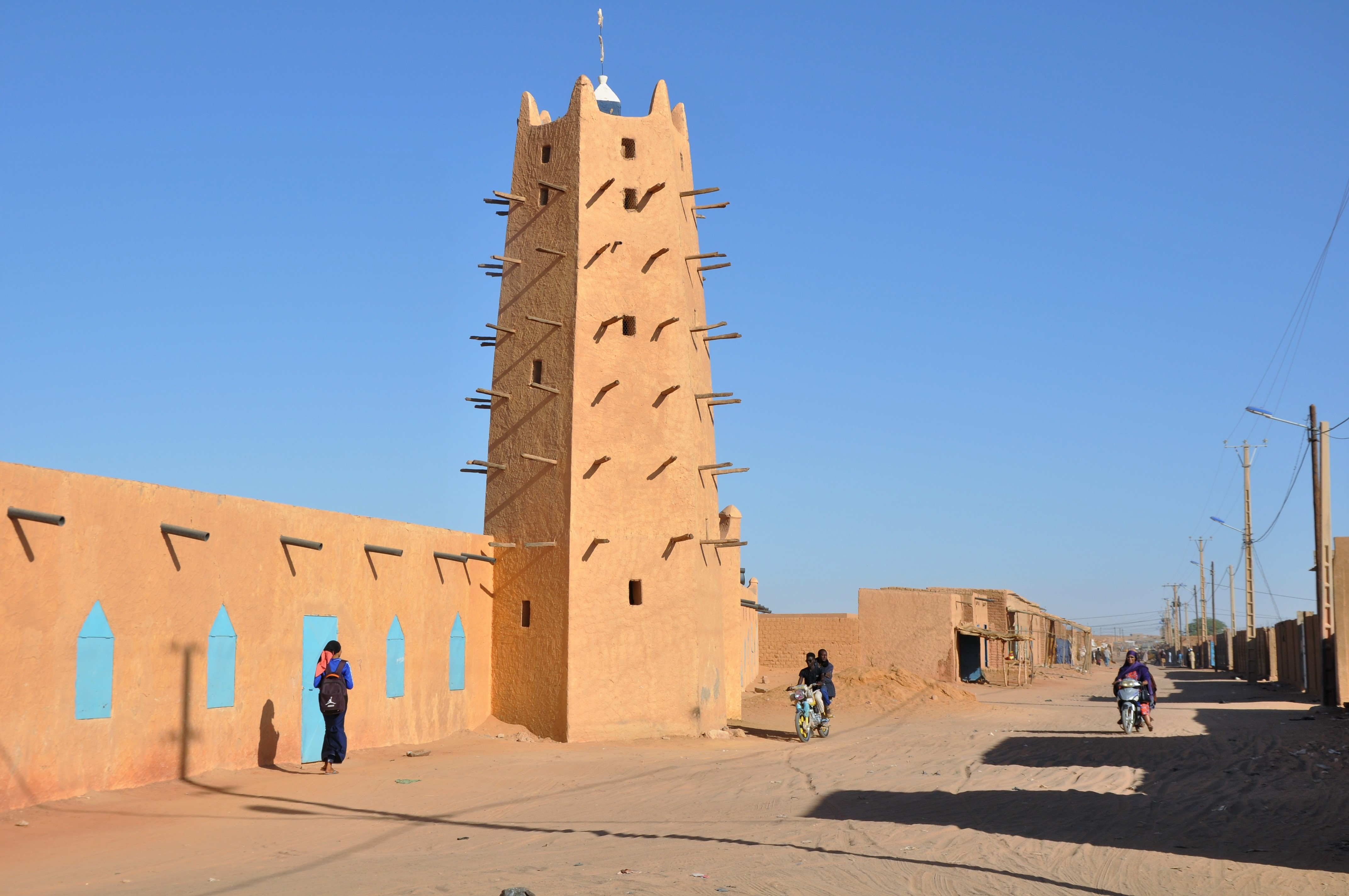 Street with mosque in Arlit, northern Niger.